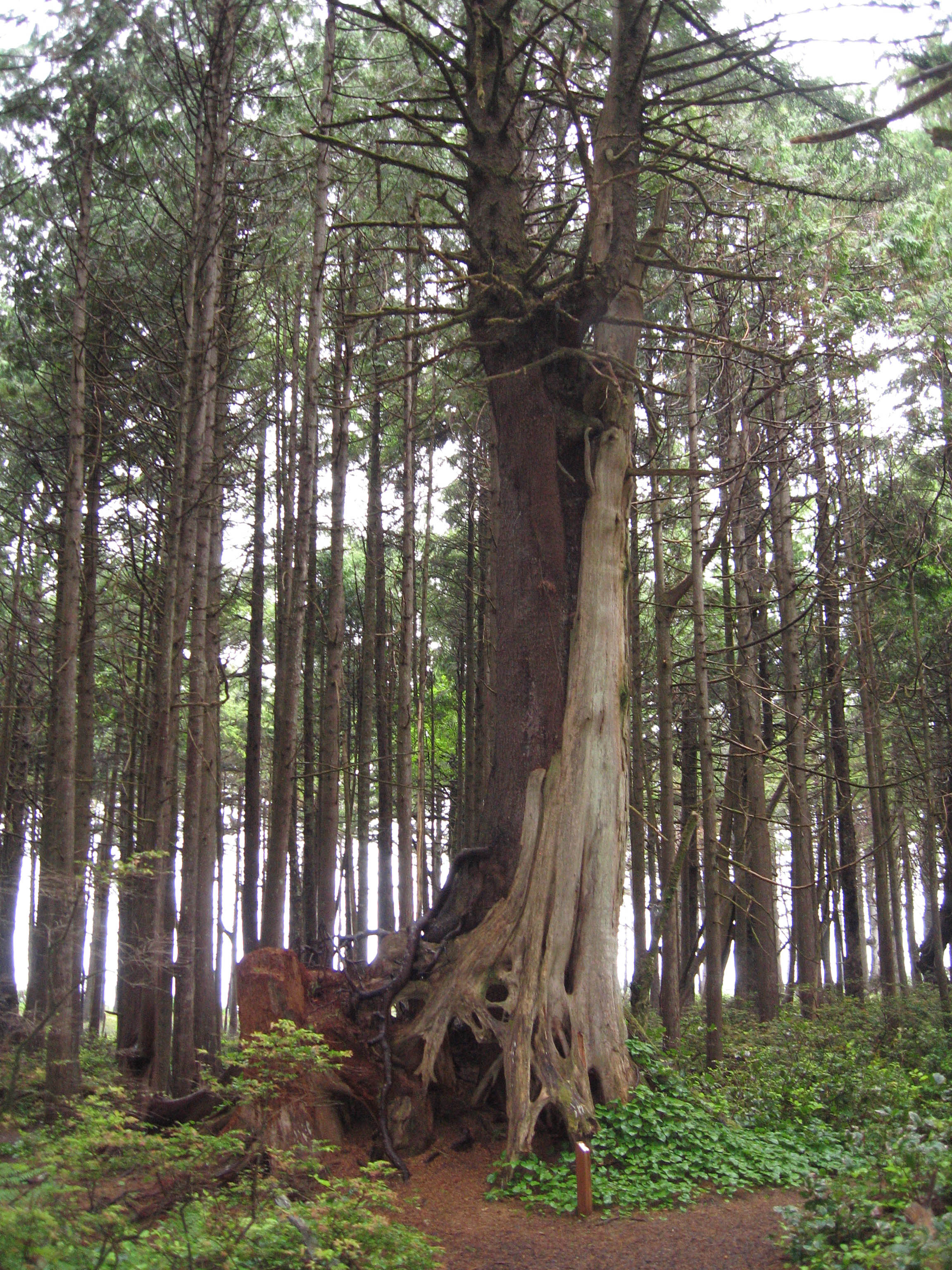 Example of a nurse tree at Cape Lookout State Park in Oregon.